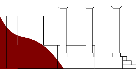 Diagram of the Thracian tumulus Horizont, Bulgaria - view from the left.